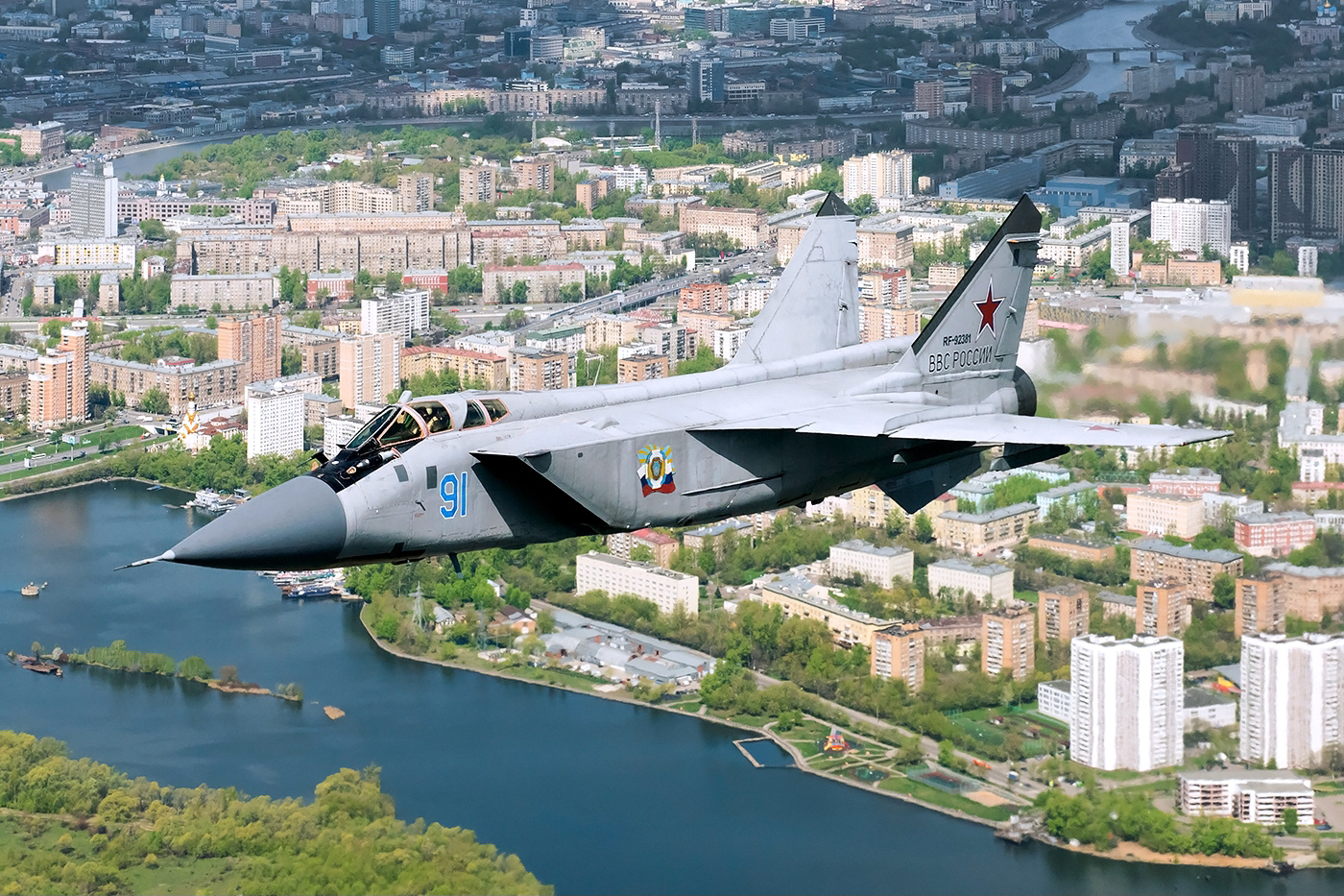 Mikoyan-Gurevich MiG-31BM (RF-92381) in flight over Moscow